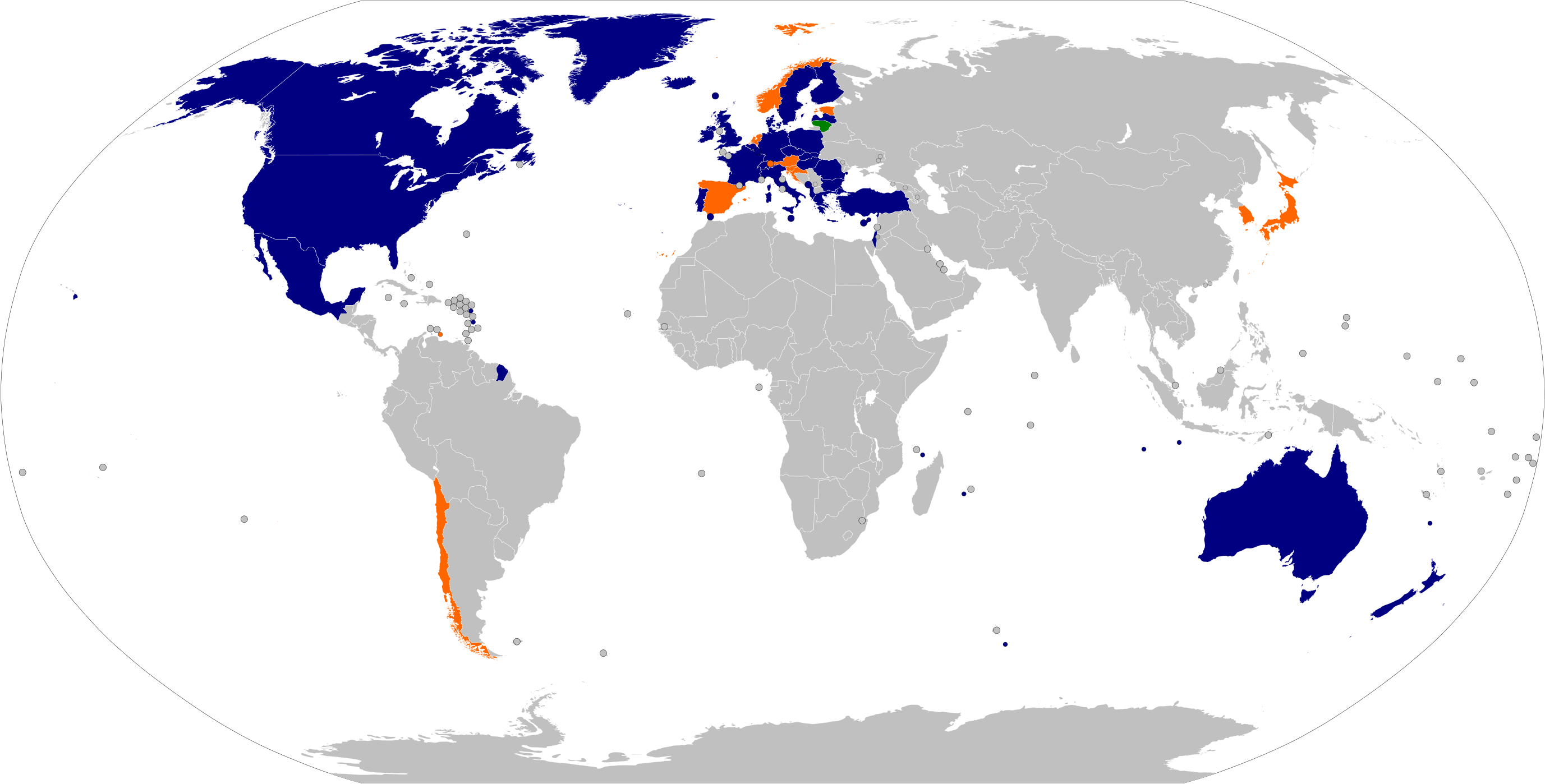 The map represents countries (blue) which citizenship could be held by Lithuanians while retaining their own citizenship, depending on the decision in the constitutional referendum of 12 May 2019. Orange is for the eligible countries which would not allow it due to their own national laws